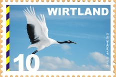 Wirtland postage